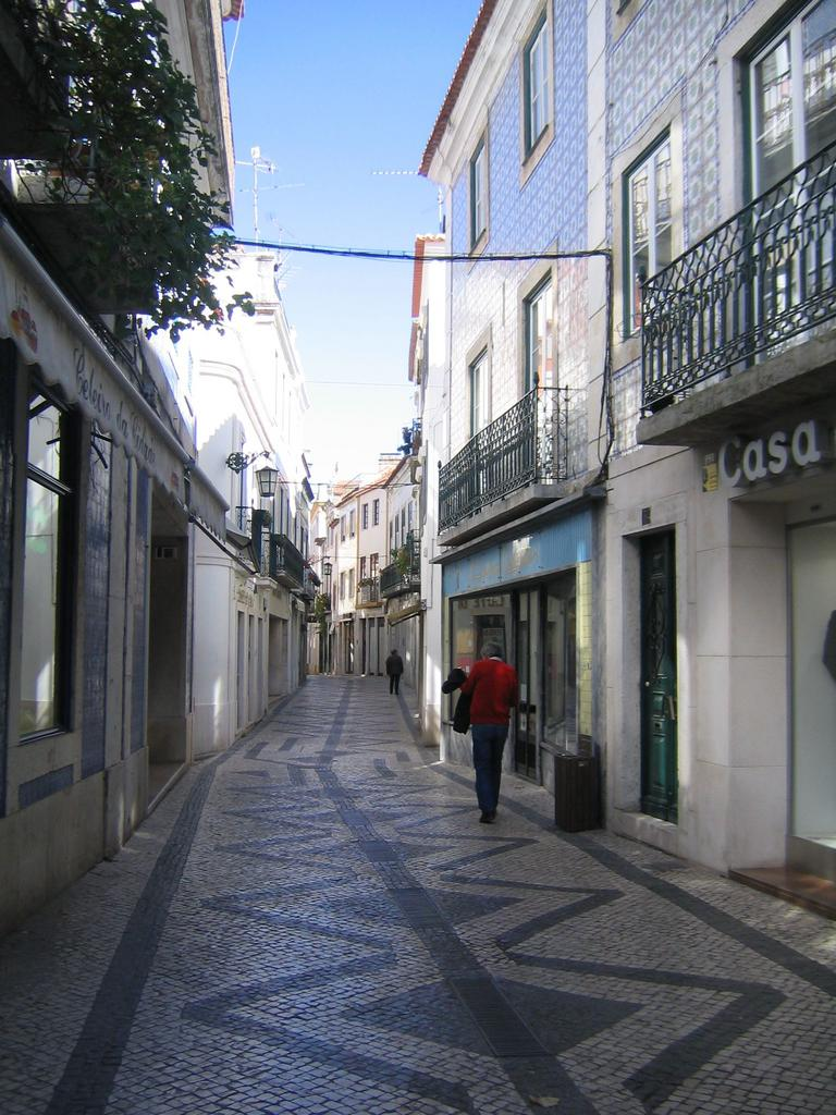 Carfree area of Santarém, Portugal